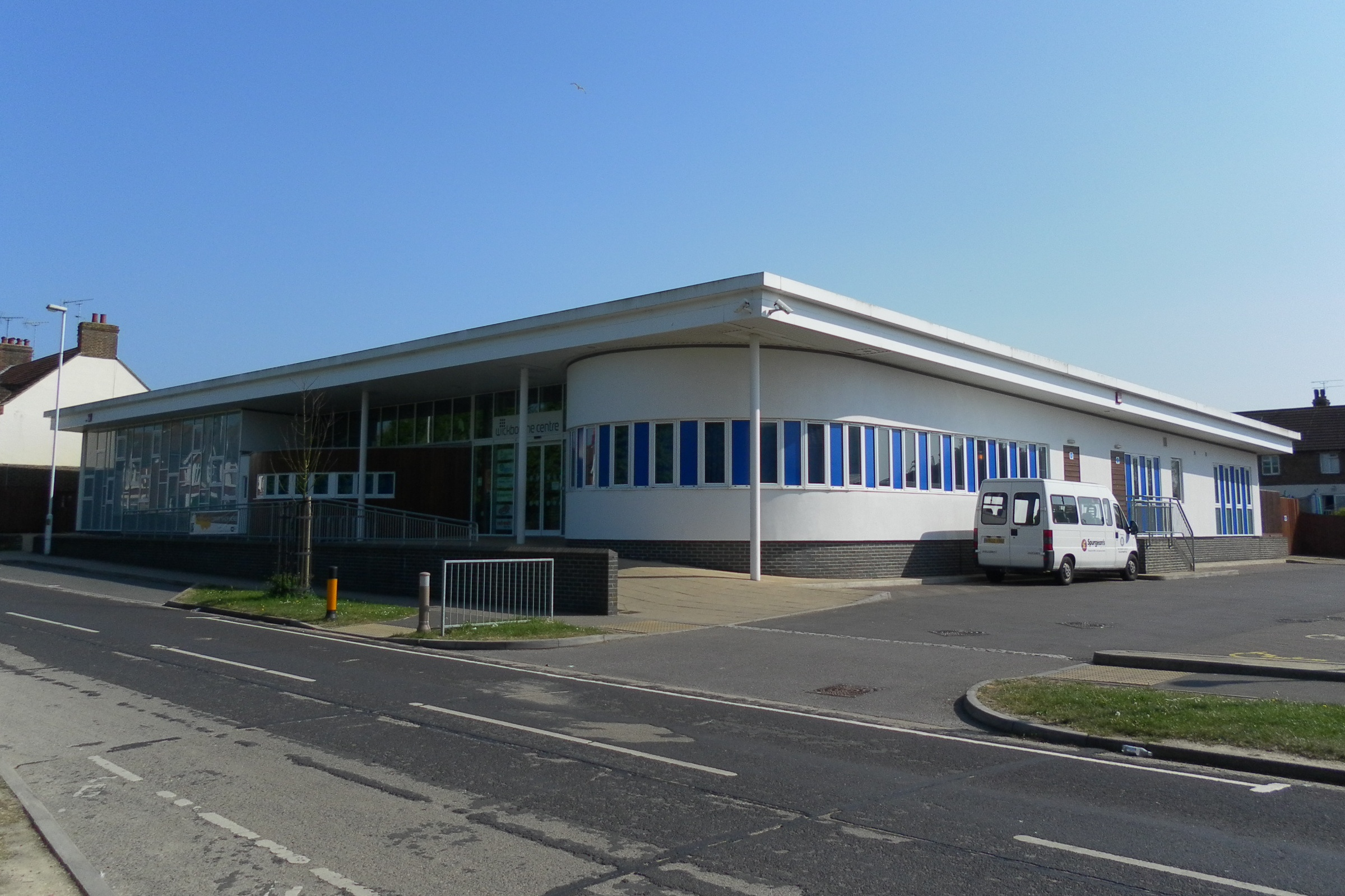 Wickbourne Centre, Clun Road, Wick, Littlehampton, Arun District, West Sussex, England. Home of the Arun Community Church, and also used for social activities. Built on the site of the former Wickbourne Chapel in 2005.